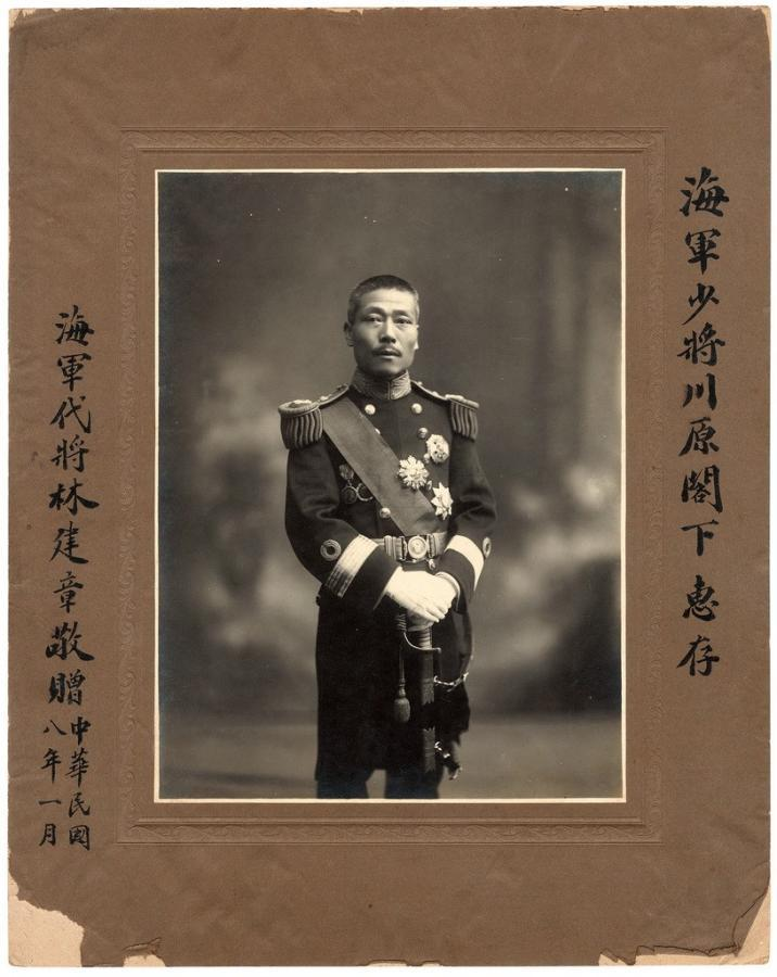 Lin Jianzhang (1874－1940)